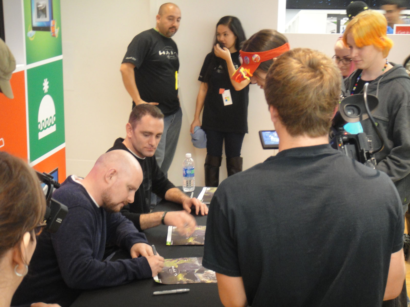 @ the Microsoft Store - Century City, CA photo 2011 taken by Doug Kline If you're interested in higher resolution versions of my images, contact me via my profile page.